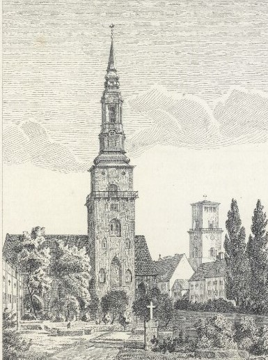 St. Petri Kirke in Copenhagen, Denmark